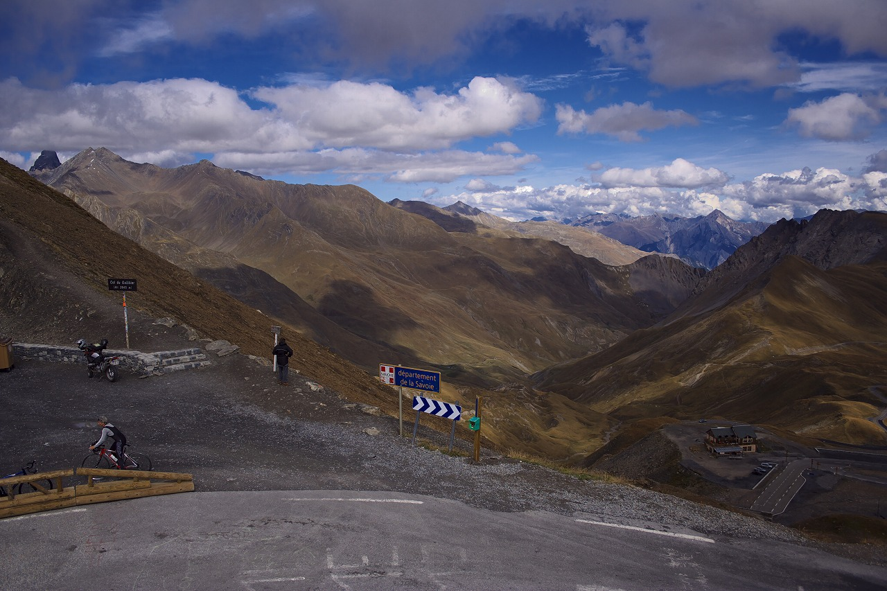 Col du Galibier (el. 2645 m.) is a mountain pass in the southern region of the French Dauphiné Alps near Grenoble. It is often the highest point of the Tour de France.